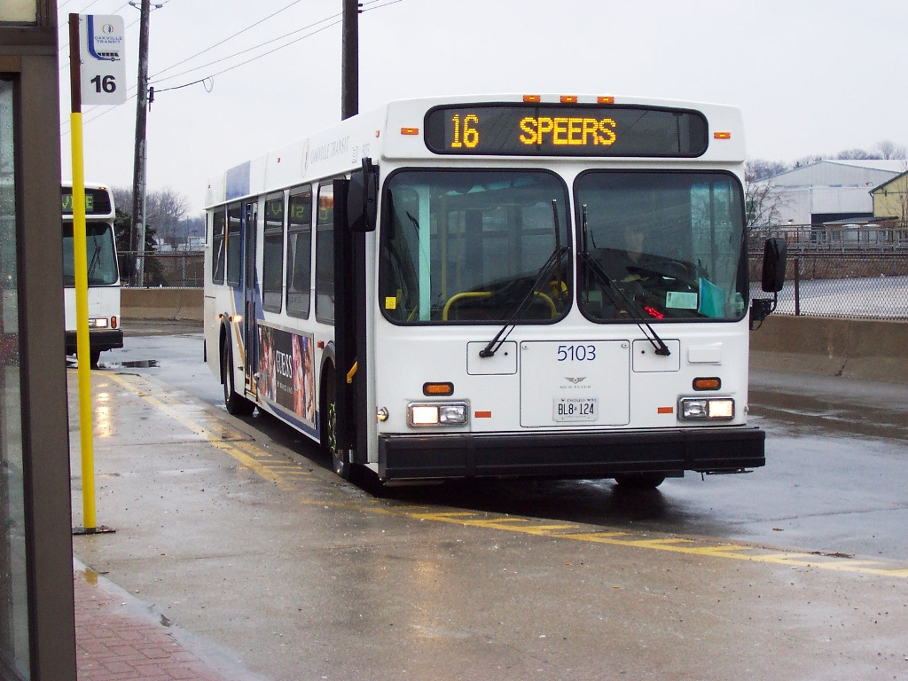 Oakville Transit New Flyer D40LF #5103 at the Oakville GO station in Oakville, ON.